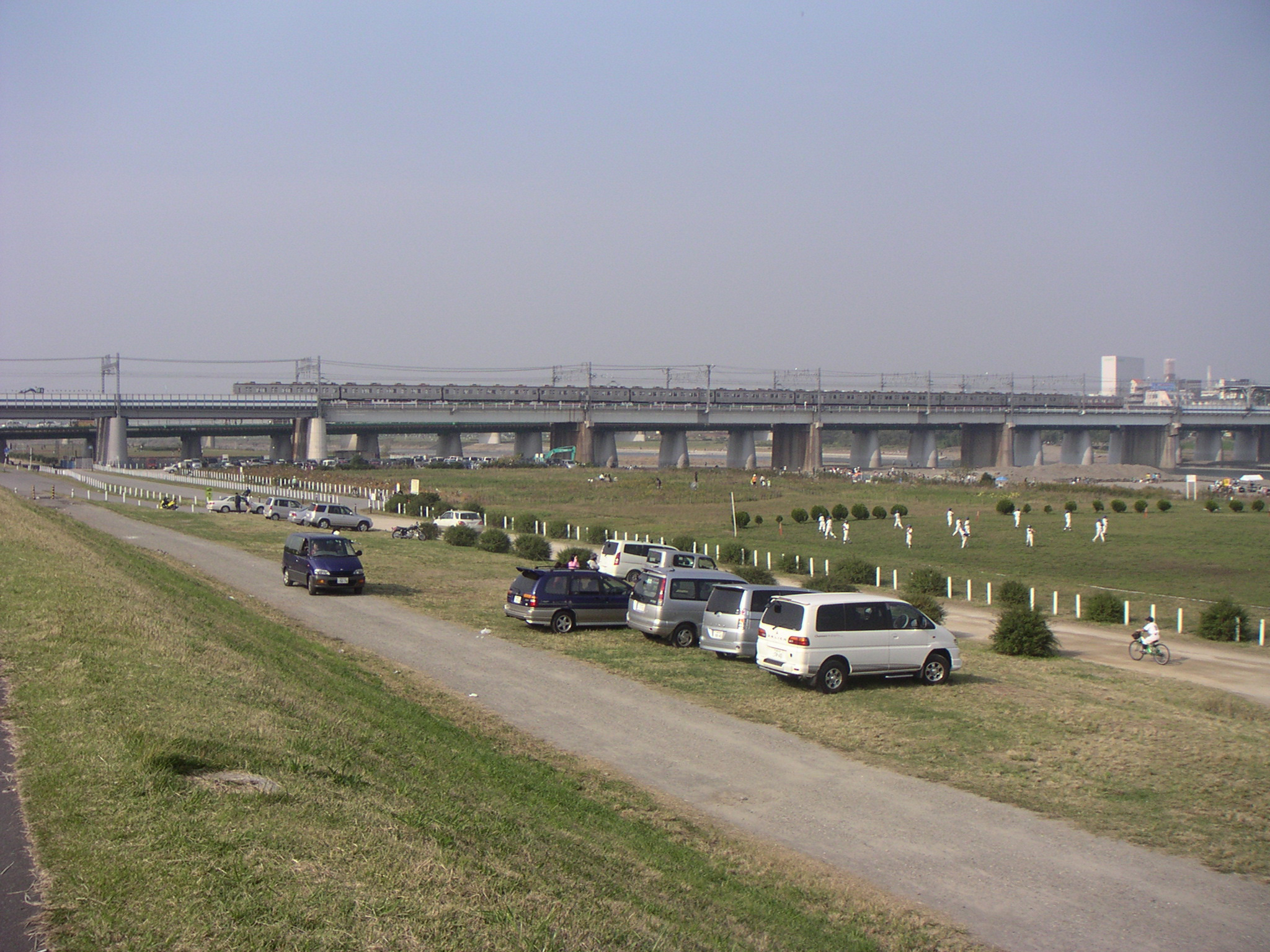 Tama River Bridge of Denentoshi Line